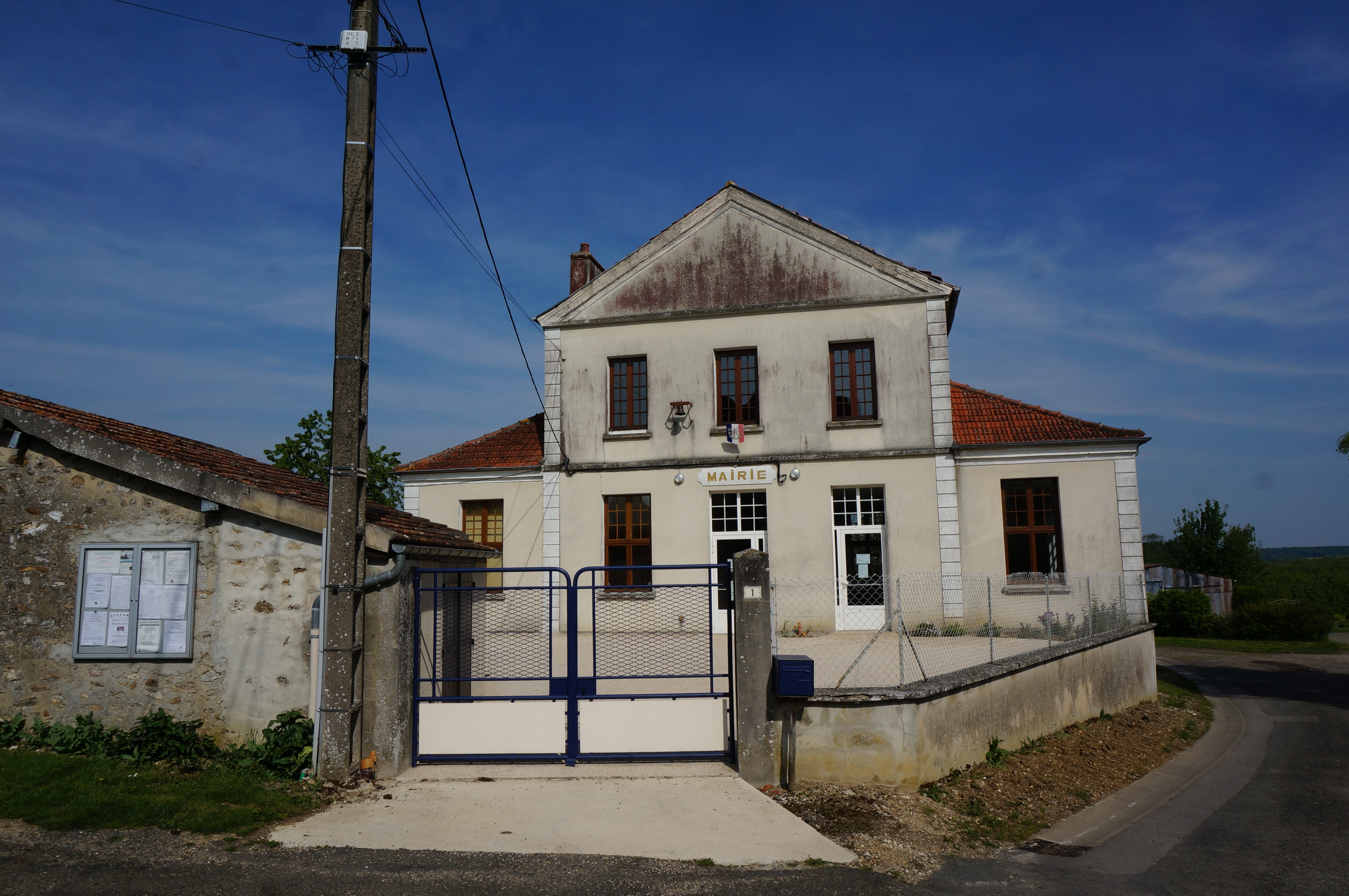 Mairie_épine_aux_bois.